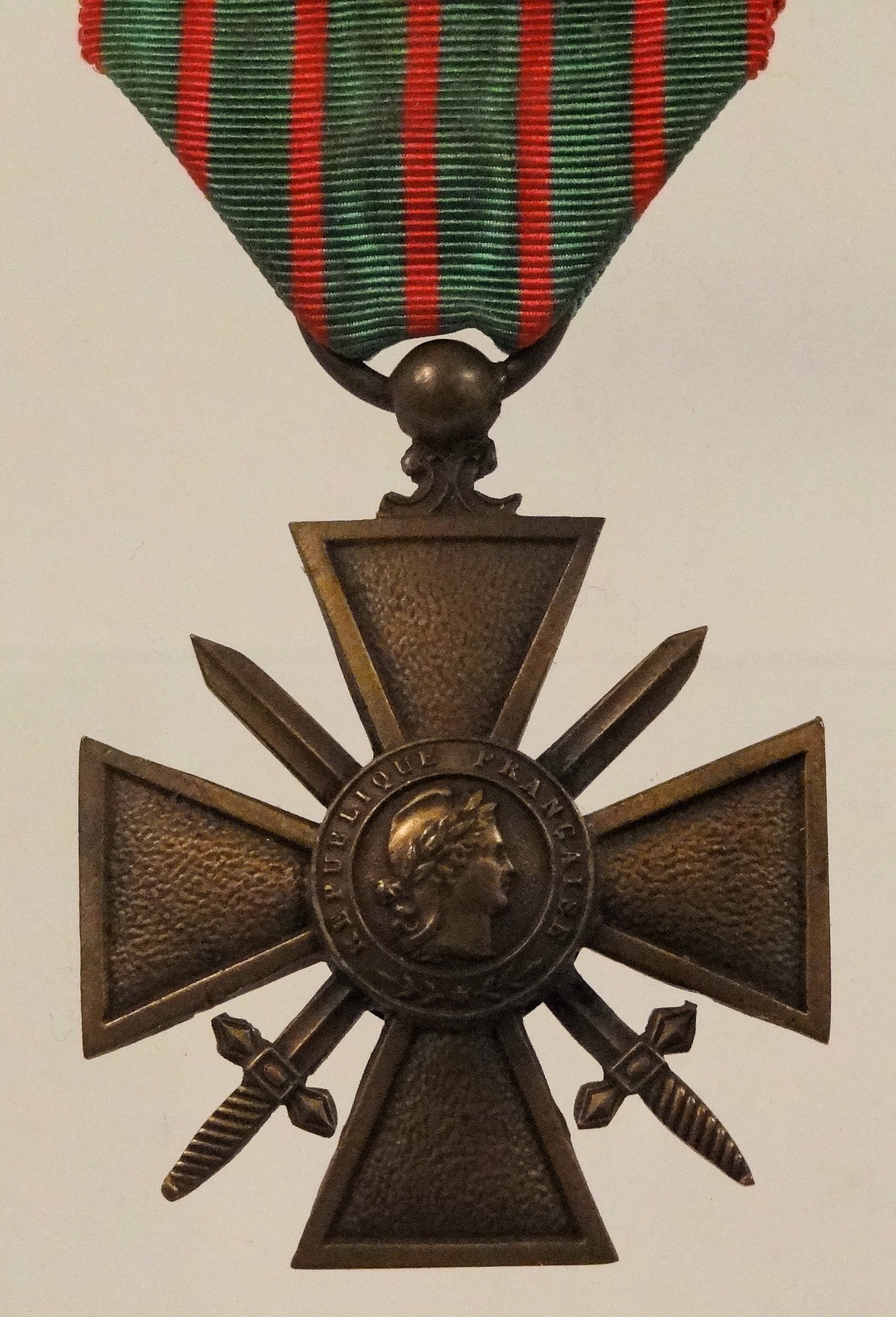 The Croix de Guerre awarded to Francis Browne for his services in World War I. The medal is on display at the Cobh Heritage Centre in Cobh, Ireland.